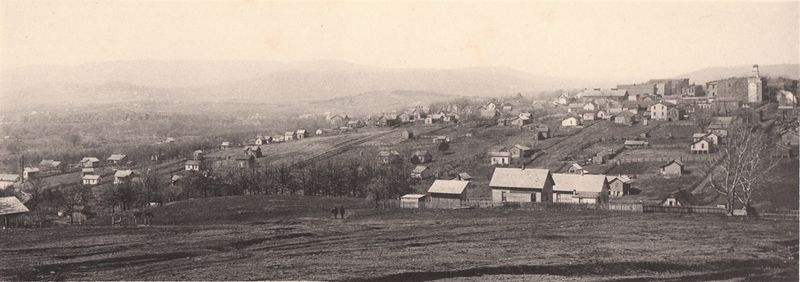 South end of Fayetteville, AR in early 1890s. Visible is Old Washington County Courthouse on the town square. Roads from left, Center Street, Mountain Street and Rock Street. The Valley is Spout Spring Hollow/Tin cup Hollow.